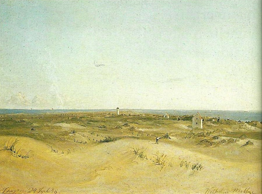 Udsigt over Skagen (View over Skagen), painting by the Danish marine artist Vilhelm Melbye. Cropped to remove heading.